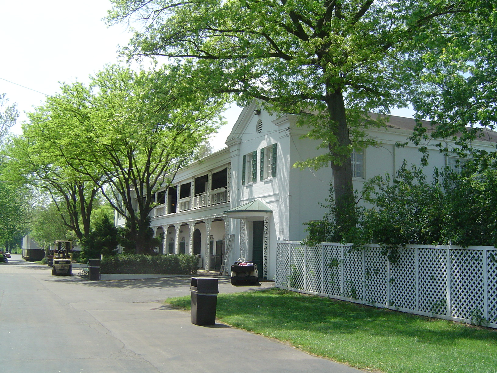 description: Moonlite Gardens photographer: Adam Sonnett photographer_location: Cincinnati, OH photographer_url: [1] flickr_url: [2] taken:May 8, 2007